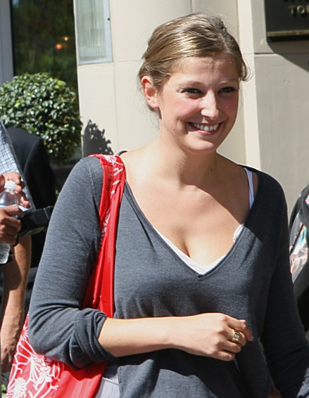 Alexandra Maria Lara at the 2007 Toronto International Film Festival.